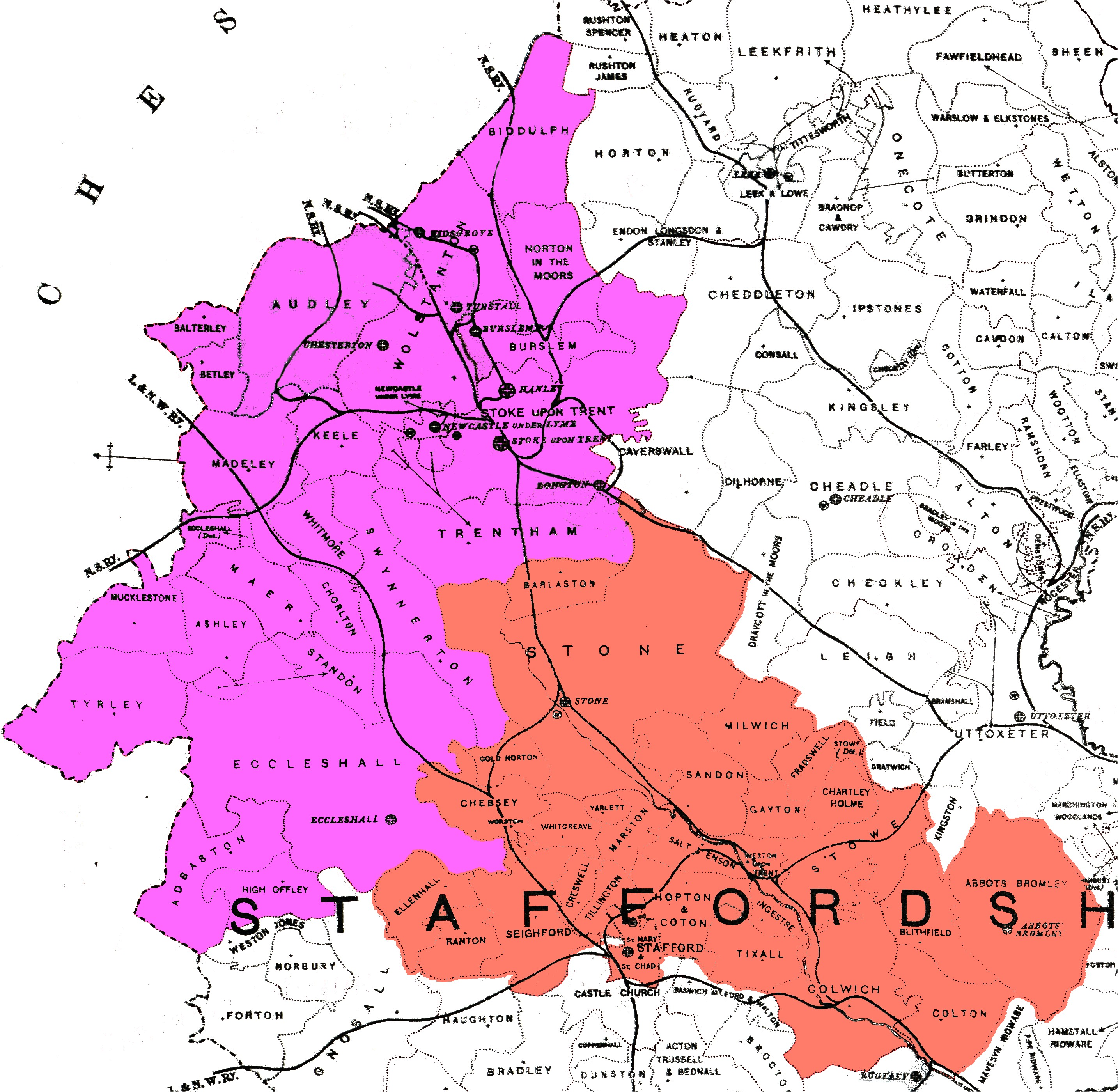 Map of Pirehill Hundred, Staffordshire, England, showing North and South divisions, parishes, townships,etc., according to lists of such units in 1834 gazetteer and 1841 census